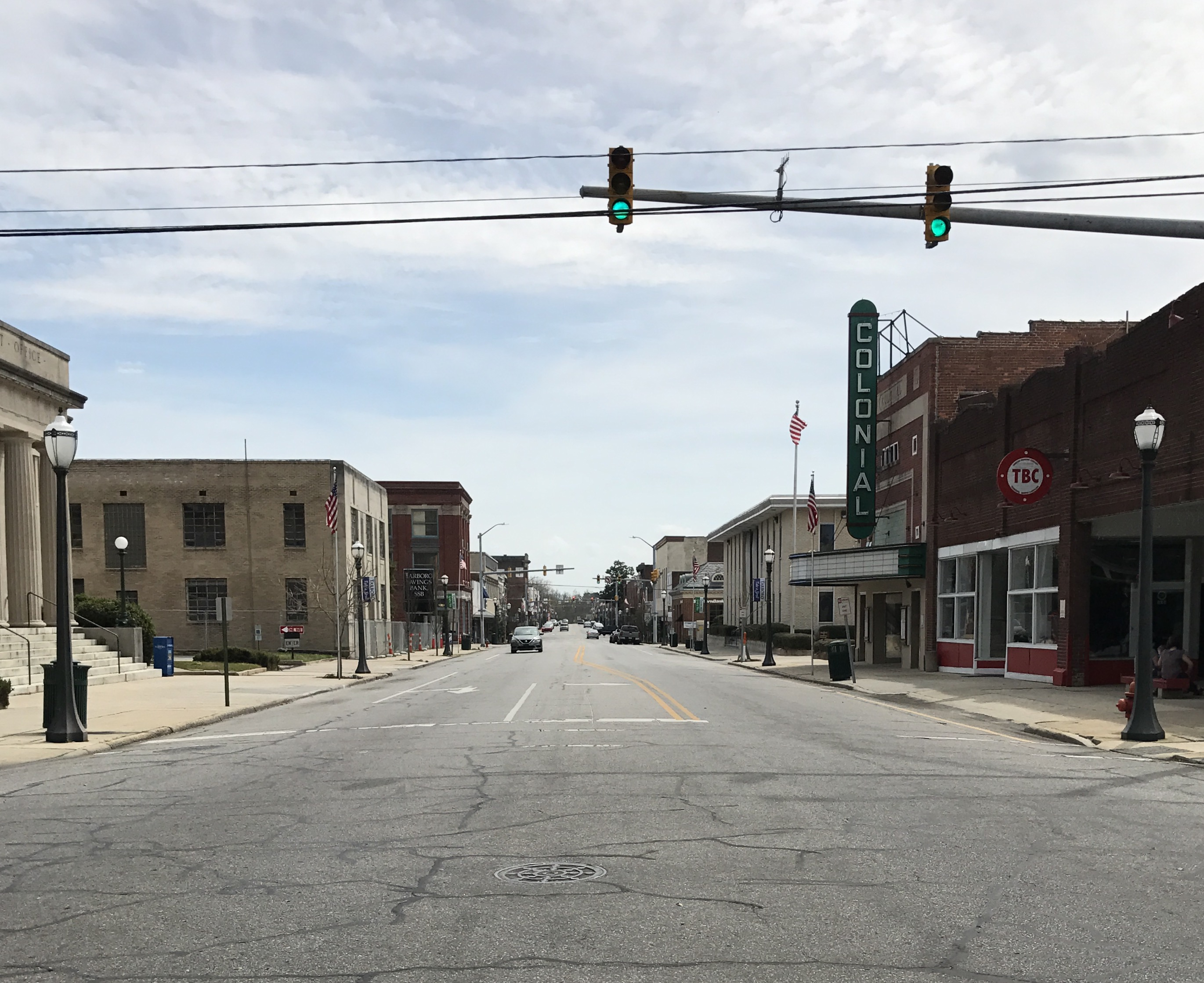 Tarboro